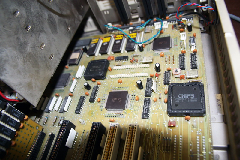 Robotron Personalcomputer EC 1835 Prototype (1990), Motherboard, recorded in "Industriemuseum Chemnitz", Germany